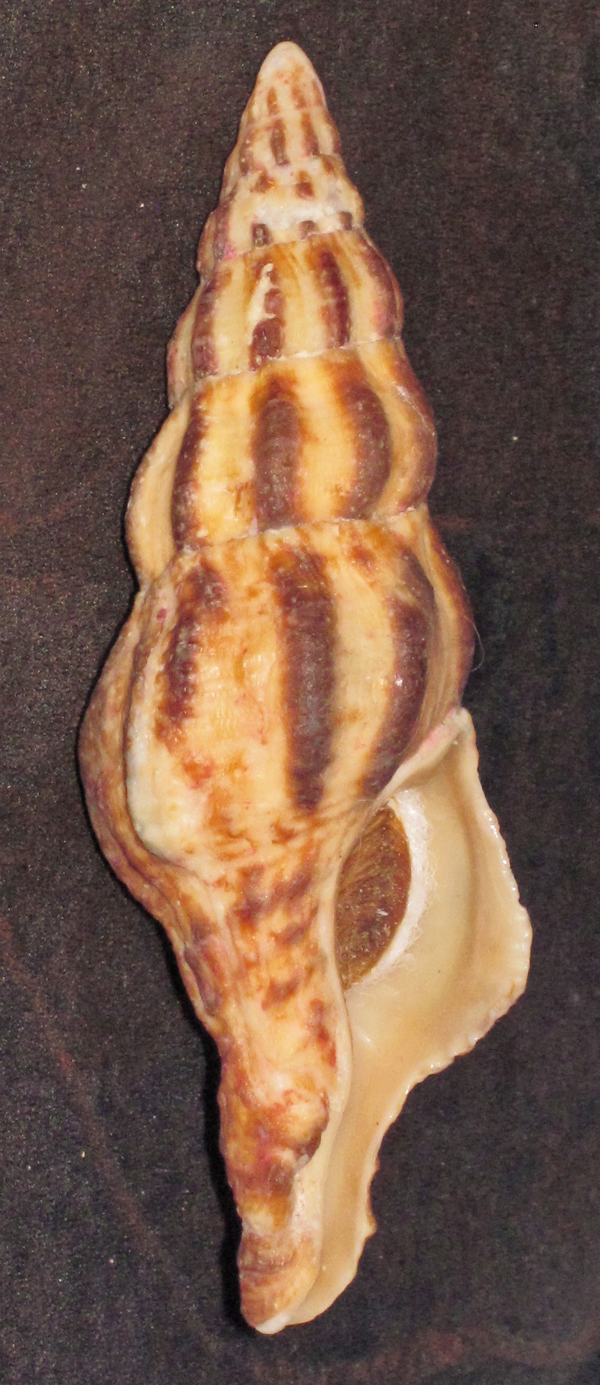 Pustulatirus sanguineus (Wood, 1828) - blood latirus snail from the Galapagos Islands. (apertural view) (public display, Bailey-Matthews Shell Museum, Sanibel Island, Florida, USA) The gastropods (snails & slugs) are a group of molluscs that occupy marine, freshwater, and terrestrial environments. Most gastropods have a calcareous external shell (the snails). Some lack a shell completely, or have reduced internal shells (the slugs & sea slugs & pteropods). Most members of the Gastropoda are marine. Most marine snails are herbivores (algae grazers) or predators/carnivores. From museum signage: "This world-record shell, a member of the Family Fasciolariidae, was collected at Punta Cormorant, Floreana Island, one of the Galapagos Islands. The coarse-looking shell measures 75.1 mm." Classification: Animalia, Mollusca, Gastropoda, Neogastropoda, Fasciolariidae Locality: Cormorant Point, Floreana Island, Galapagos More info. at